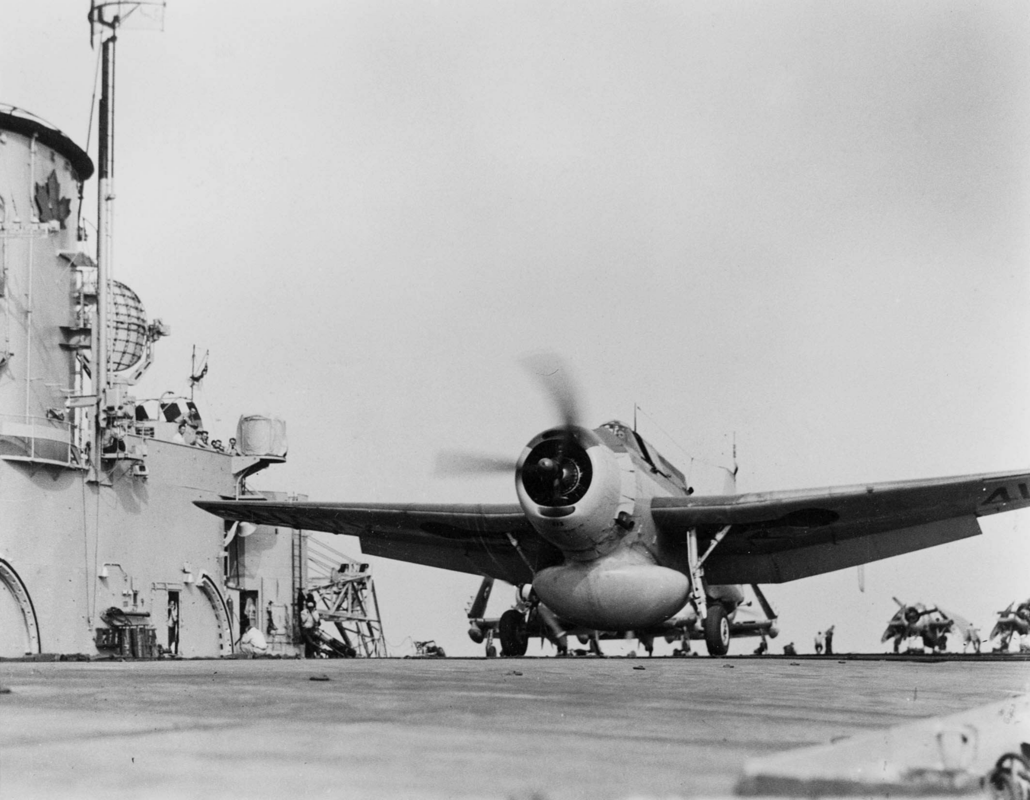 Grumman TBM-3W Avenger aircraft on the flight deck of the Canadian aircraft carrier HMCS Magnificent (CVL 21), circa 1953. In September 1953 the carriers USS Wasp (CVA-18), USS Bennington (CVA-20) and HMCS Magnificent conducted the exercise "Mariner" in the North Atlantic. On the afternoon of 23 September 1953, with 42 planes aloft, the carriers were completely sogged in by fog. After Vice Admiral T.S. Combs and Rear Admiral H.H. Goodwin had ordered to ditch all planes near the submarine USS Redfin (SSR-272) at 1620 hrs, however, the fog lifted and all planes could be recovered safely with only minimum fuel remaining. This was then called the "Mariner Miracle".